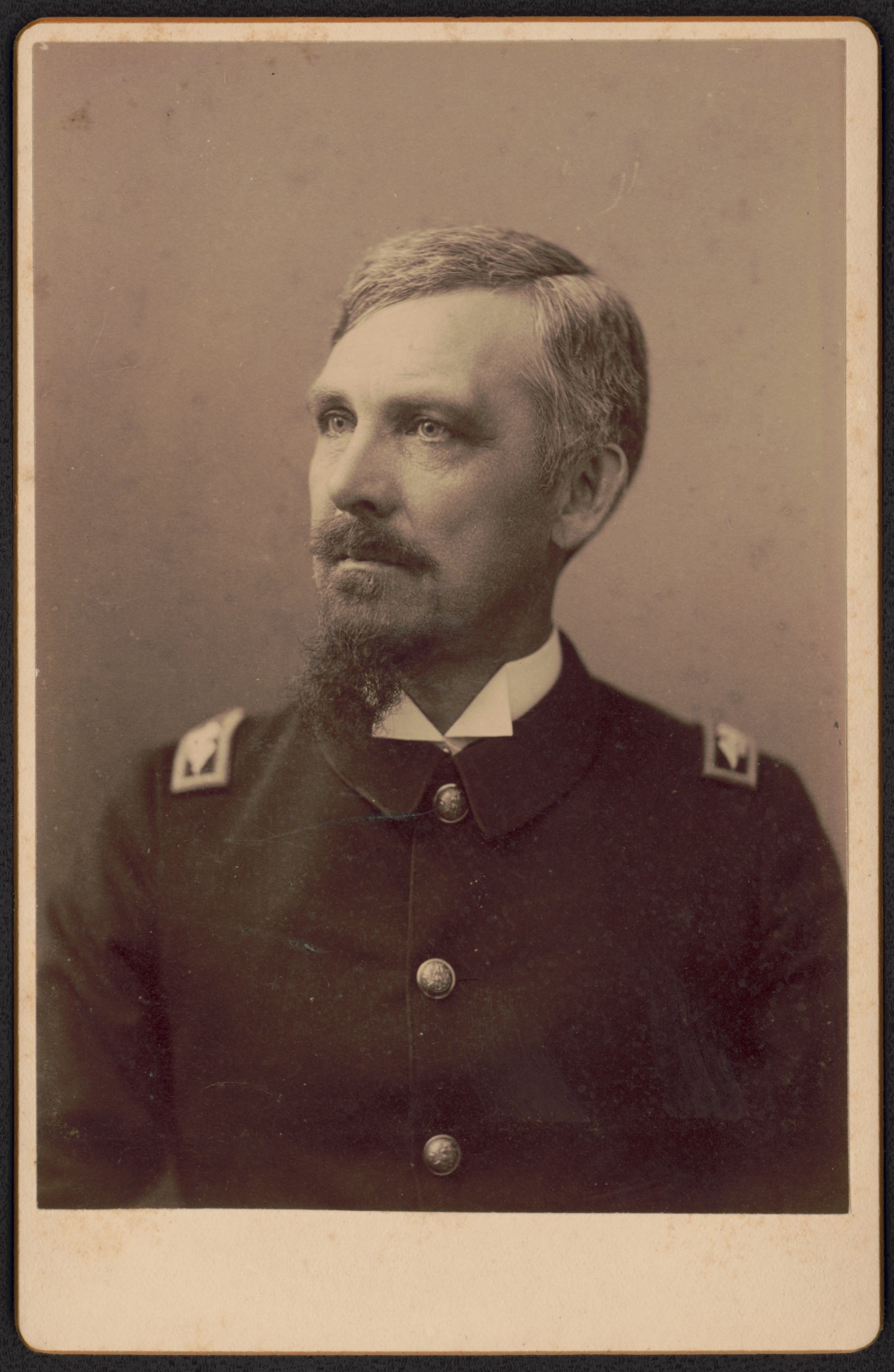 Title: Brigadier General Scott Shipp, superintendent of Virginia Military Institute in uniform Abstract/medium: 1 photograph : albumen print on card mount ; mount 16 x 11 cm (cabinet card format)